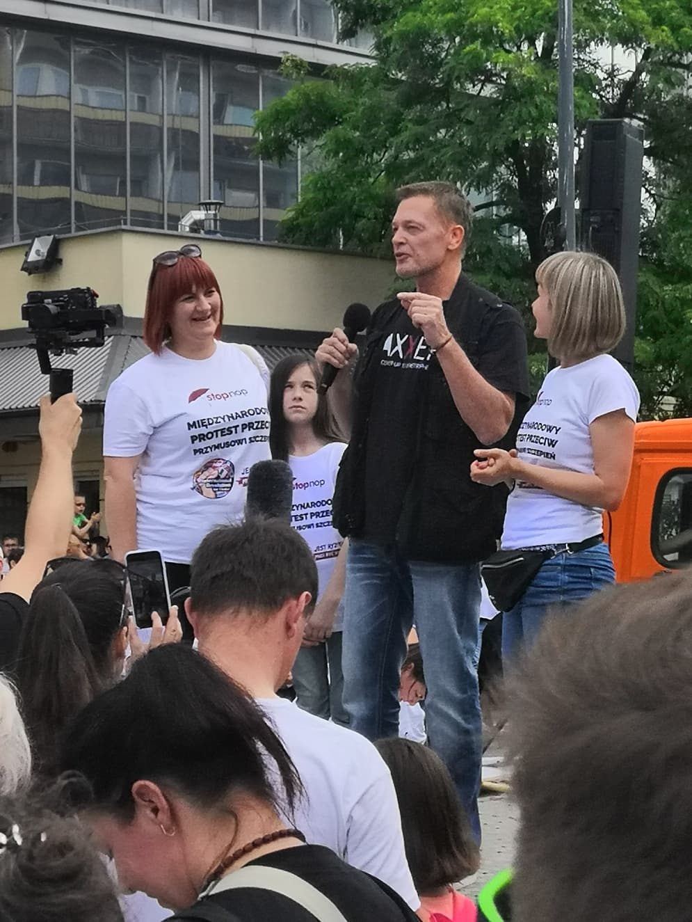 Andrew Wakefield speaking during anty-vaccine march organizes by STOP NOP in Warsaw, 2019.